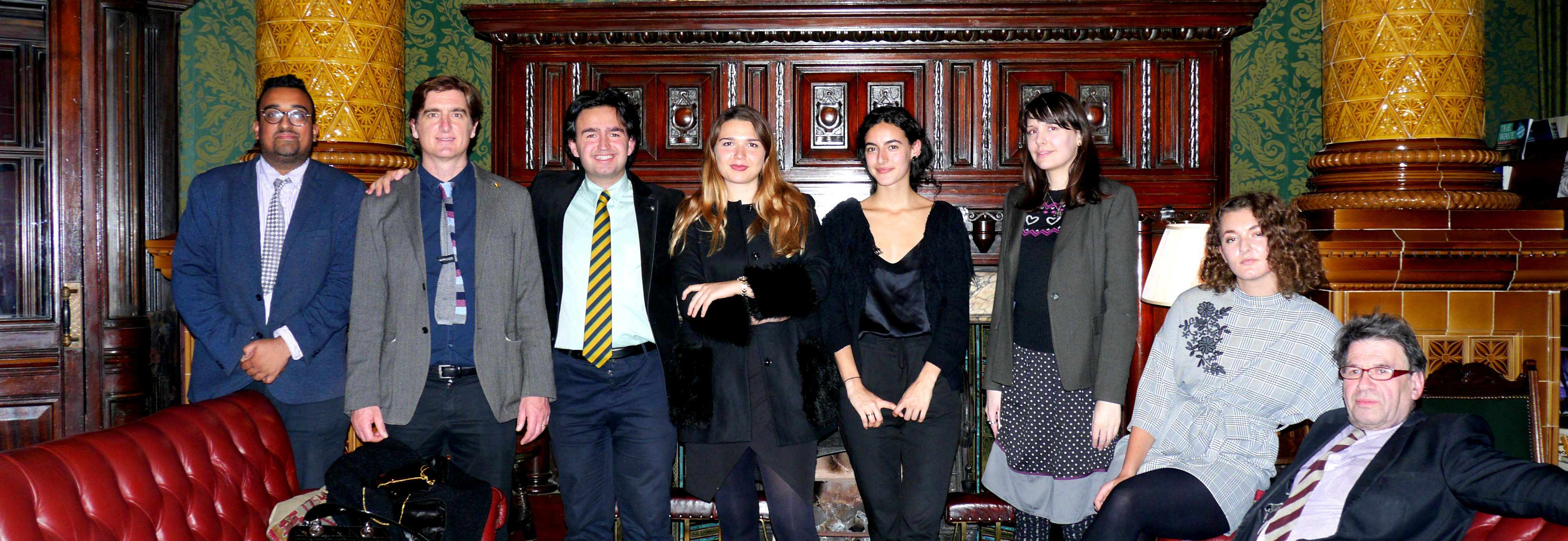 British novelist Marcel Theroux with the chairman and other members of The Sewell-Hohler Syndicate; Shayan Barjesteh van Waalwijk van Doorn, Chairman